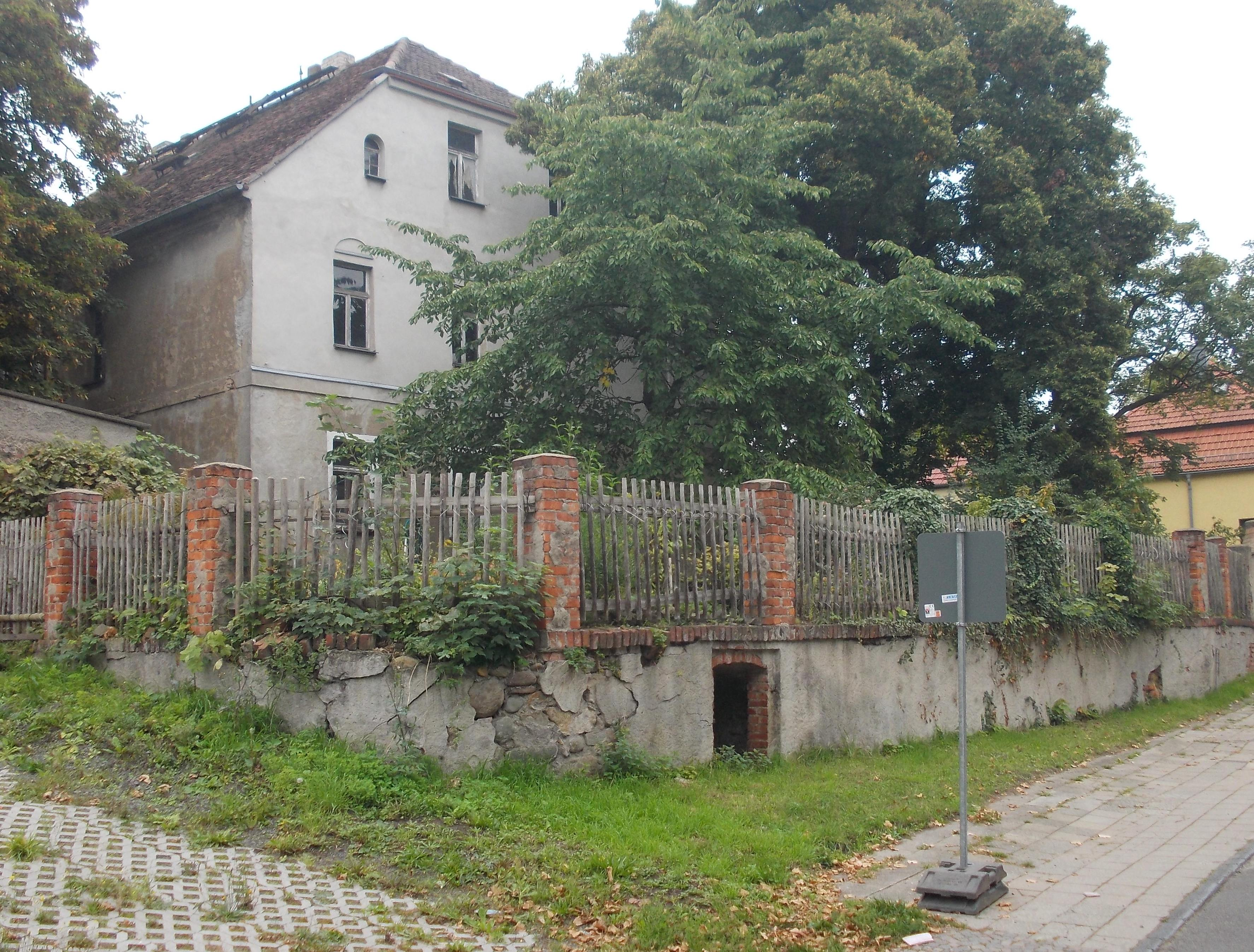 Friedrichshöhe manor house in Eilenburg (Nordsachsen district, Saxony)